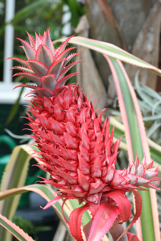 The fruit of Ananas bracteatus var. tricolor. Photo taken at New York Botanical Gardens